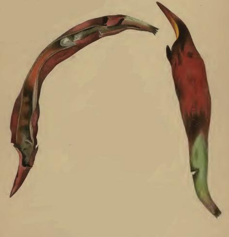 Stainton’s Natural History of the Tineina (1855–1873): Palumbina guerinii pod-like galls formed by aphids on twigs of Pistacia terebinthus and inhabited by the larvae